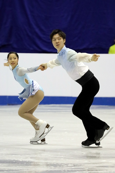 Riku MIURA Shoya ICHIHASHI JPN – 13th Place